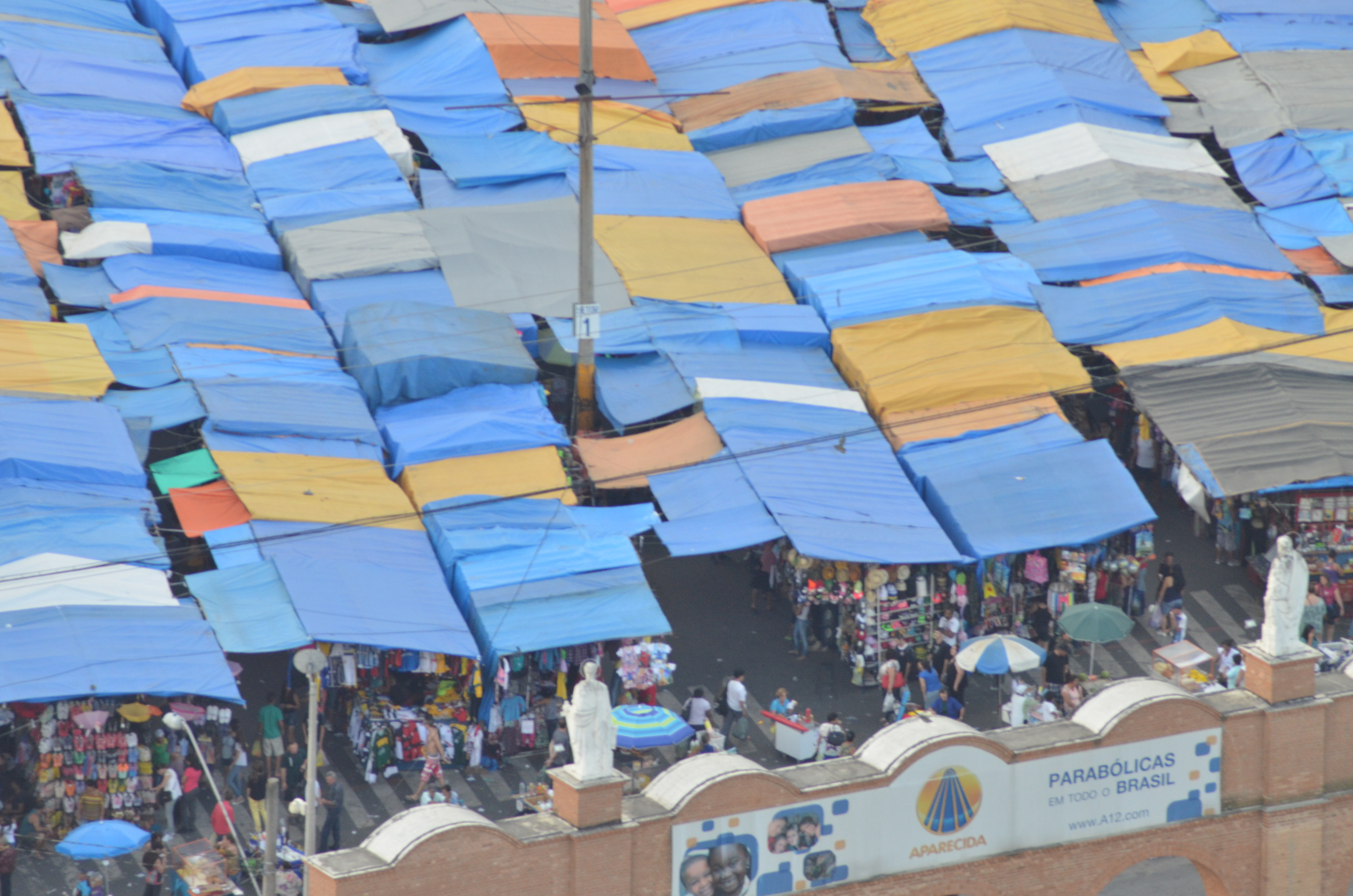 Street vendors in Aparecida, São Paulo, Brazil.